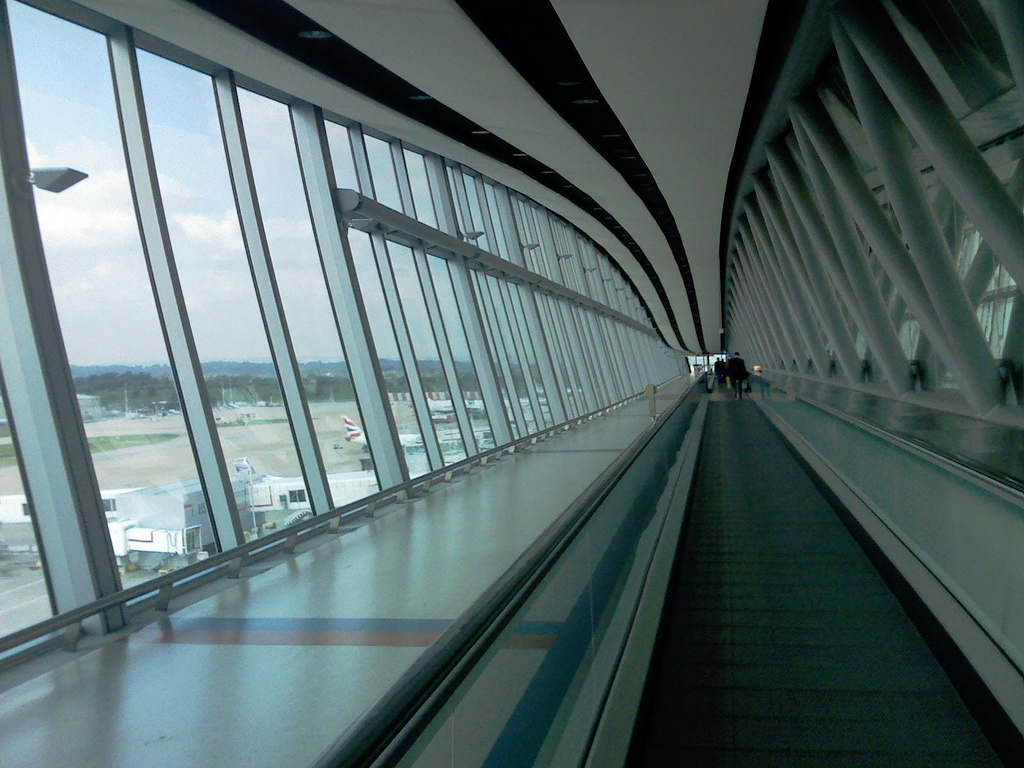 Bridge to Pier 6 in London Gatwick North Terminal